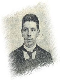 Avdo Karabegović, poet, romanticist